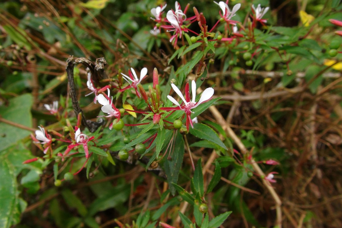 Lopezia miniata, flowering shrub. Costa Rica, northern Cordillera de Talamanca, Savegre valley near San Gerardo, ca. 2300 m.